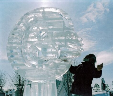 1 Abel Ramírez Águilar with ice sculpture called "Glifo Maya" at the International Competition in Snow and Ice Arts in Higashikawa, Japan